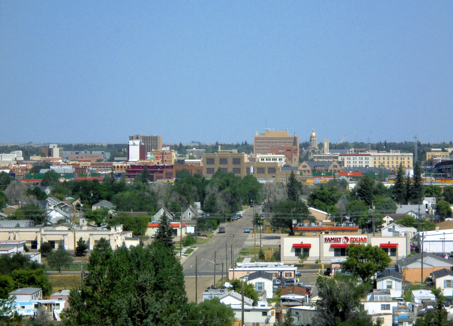 Downtown Cheyenne, looking north from I-80